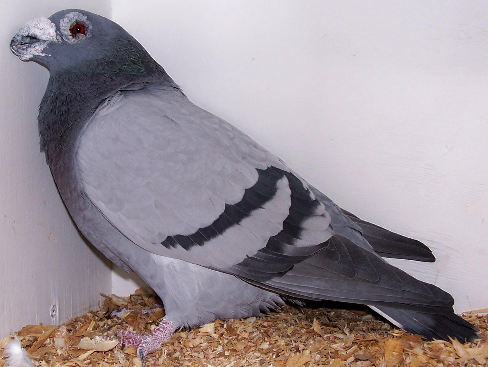 Dragoon pigeon at 2008 Queensland State Show. This bird is an old hen owned by Ron Pollock.